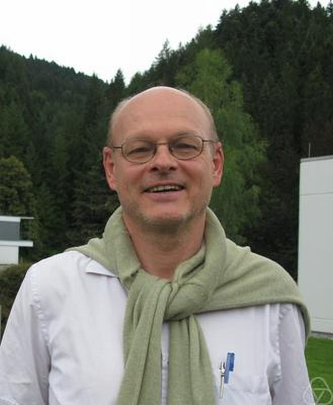 Hakan Eliasson, Oberwolfach 2011